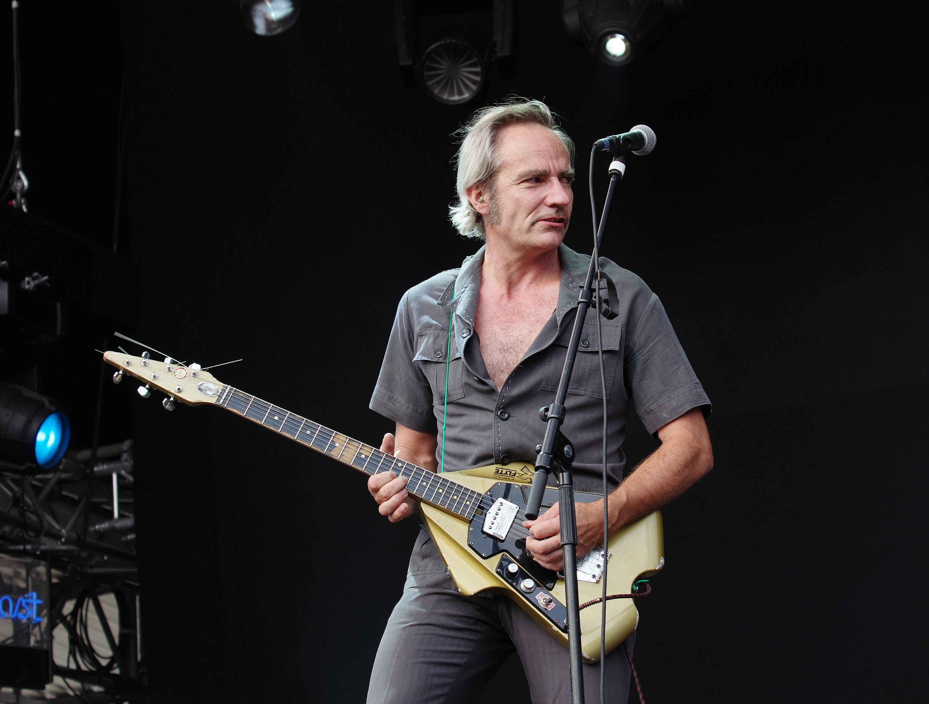 Ted Gaier of Die Goldenen Zitronen at Haldern Pop 2013